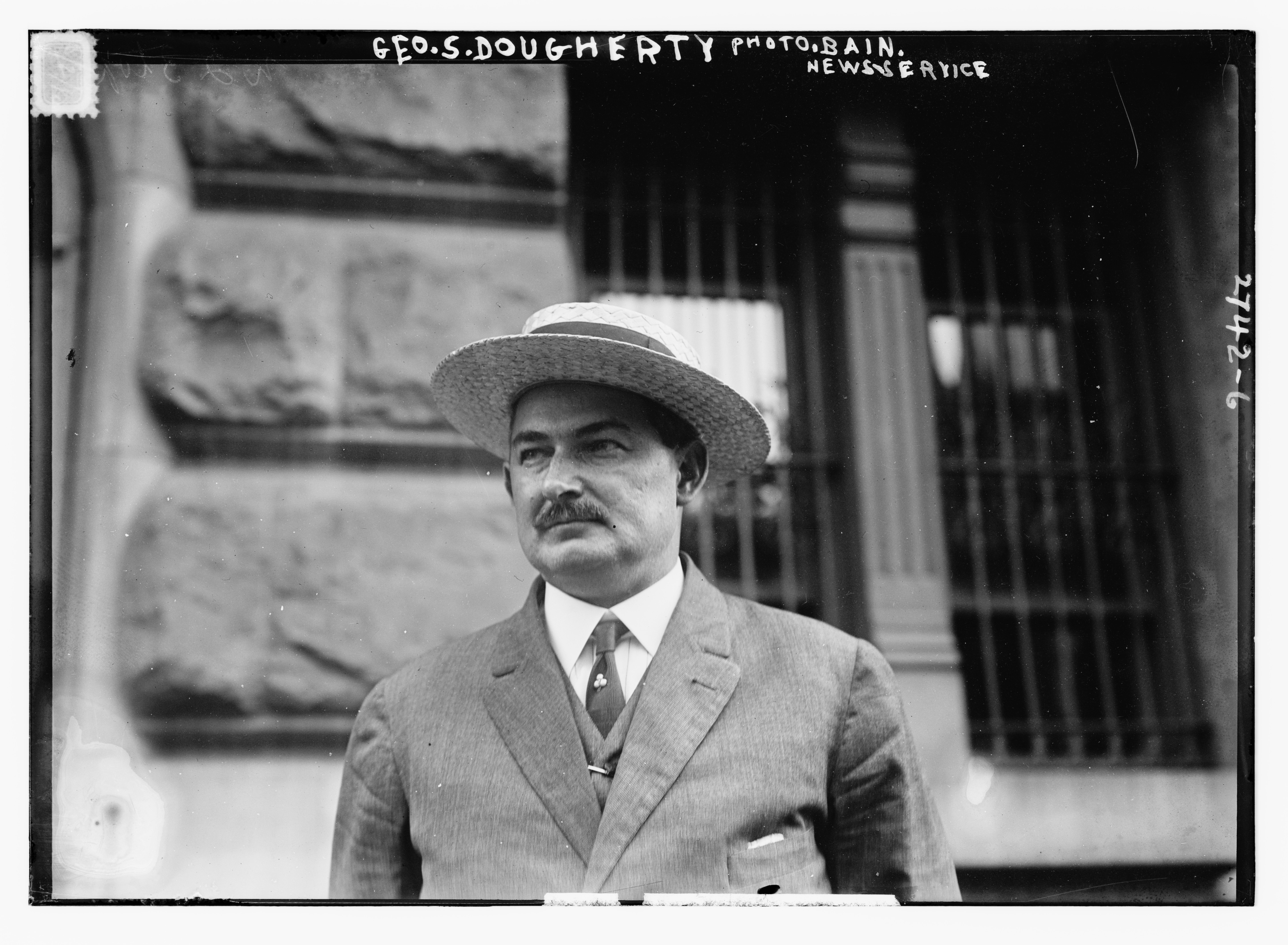 Bain News Service,, publisher. George Samuel Dougherty circa 1913 [no date recorded on caption card] 1 negative : glass ; 5 x 7 in. or smaller. Notes: Title from unverified data provided by the Bain News Service on the negatives or caption cards. Forms part of: George Grantham Bain Collection (Library of Congress). Format: Glass negatives. Repository: Library of Congress, Prints and Photographs Division, Washington, D.C. 20540 USA, General information about the Bain Collection is available at Persistent URL: Call Number: LC-B2- 2742-6